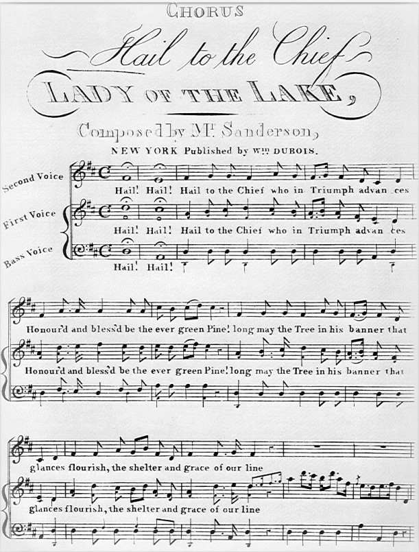 The author is a Mr Sanderson. This is a picture of the chorus of Hail to the Chief sheet music. The website where I found this image is